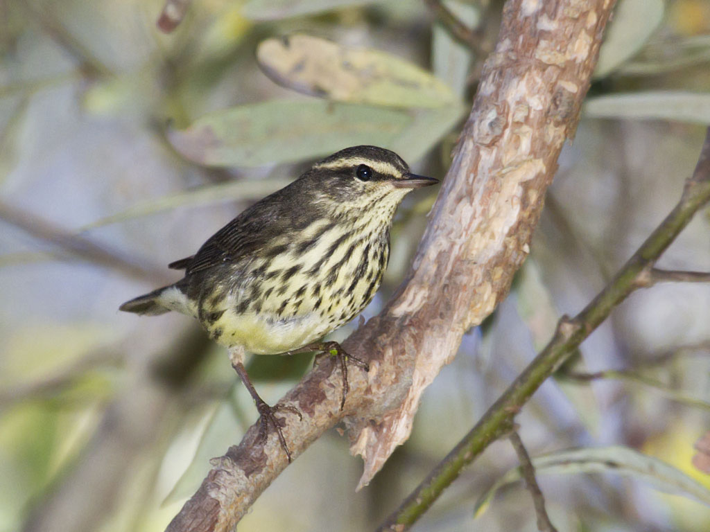 A rare vagrant to California. Oceano State Park, San Luis Obispo Co., CA, USA